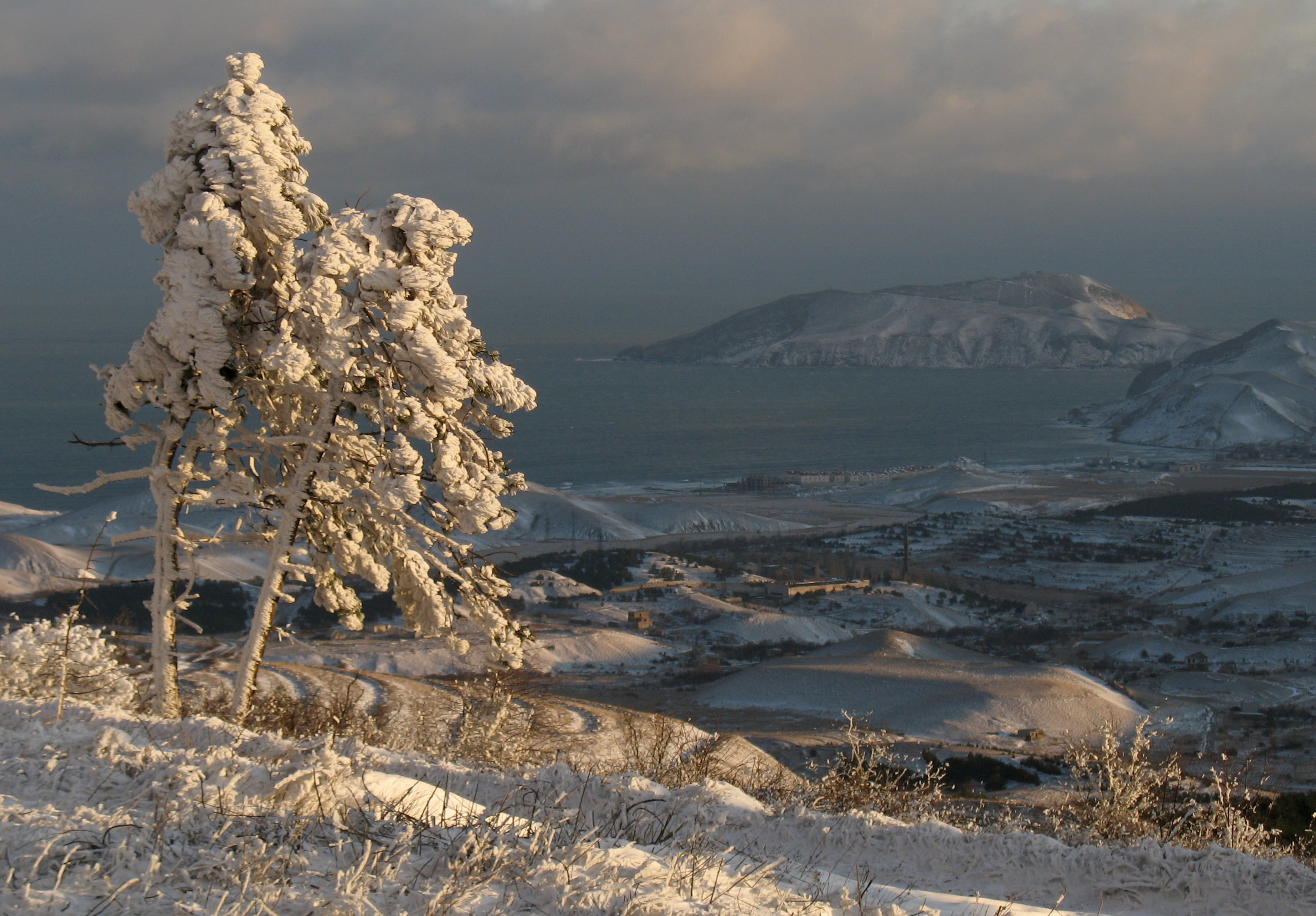 Töpe Oba Massif botanical nature reserve (zakaznik)